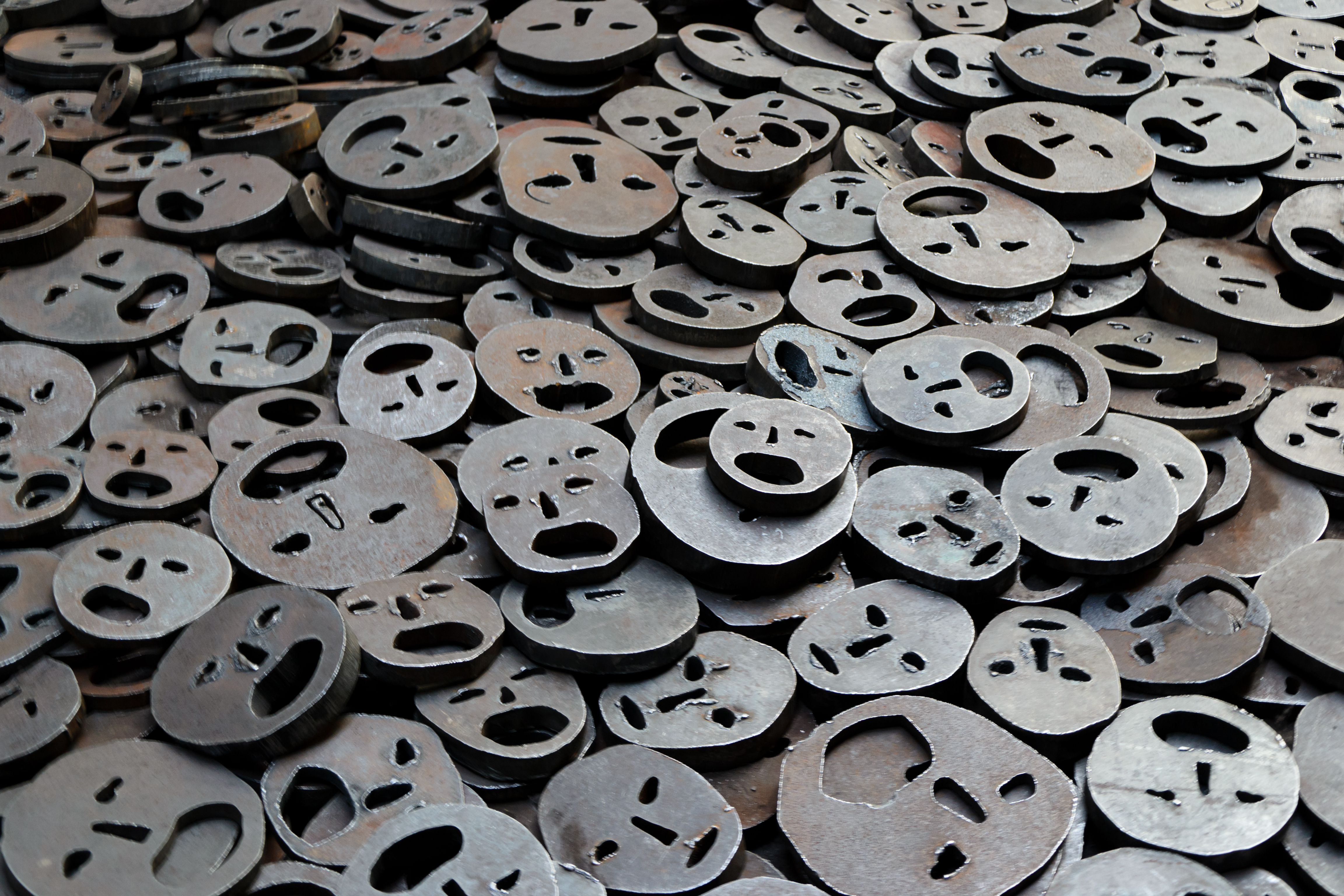 Shalechet - Fallen leaves, Jewish Museum, Berlin.